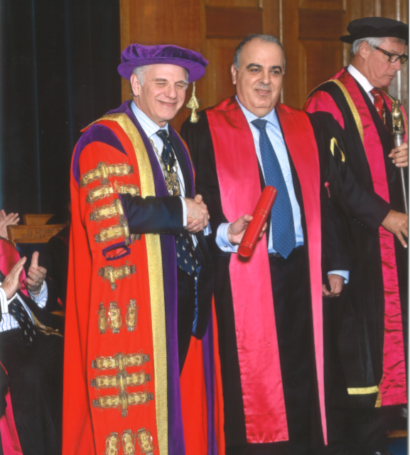 On 25th of June, he was acknowledged by honorary fellowships of the Royal College of Physicians and the Royal College of Surgeons in England.